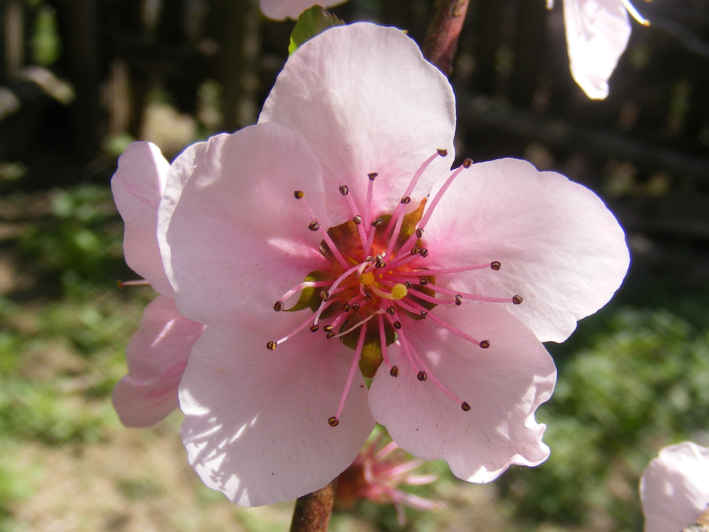 Peach flower